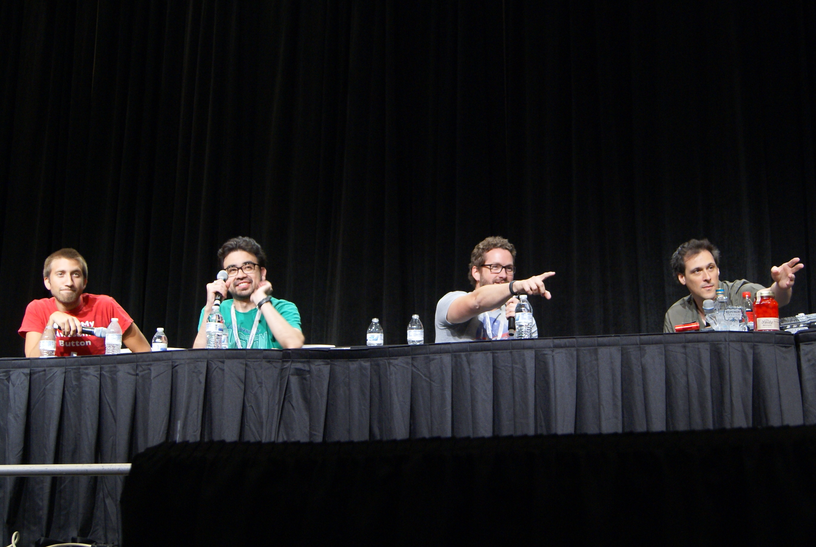 The panelists at RT Podcast Live at RTX pointing to the right (from the viewer's perspective)